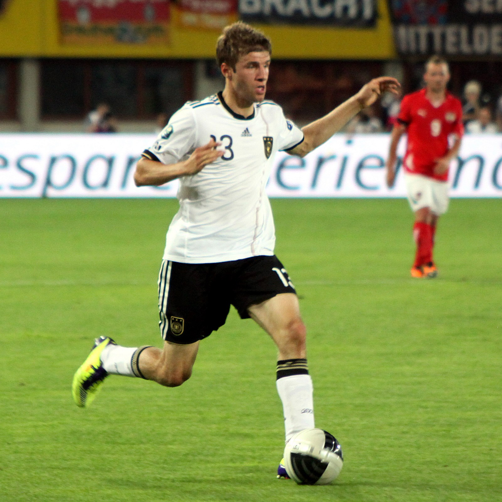 Thomas Müller (FC Bayern Munich), german national football team